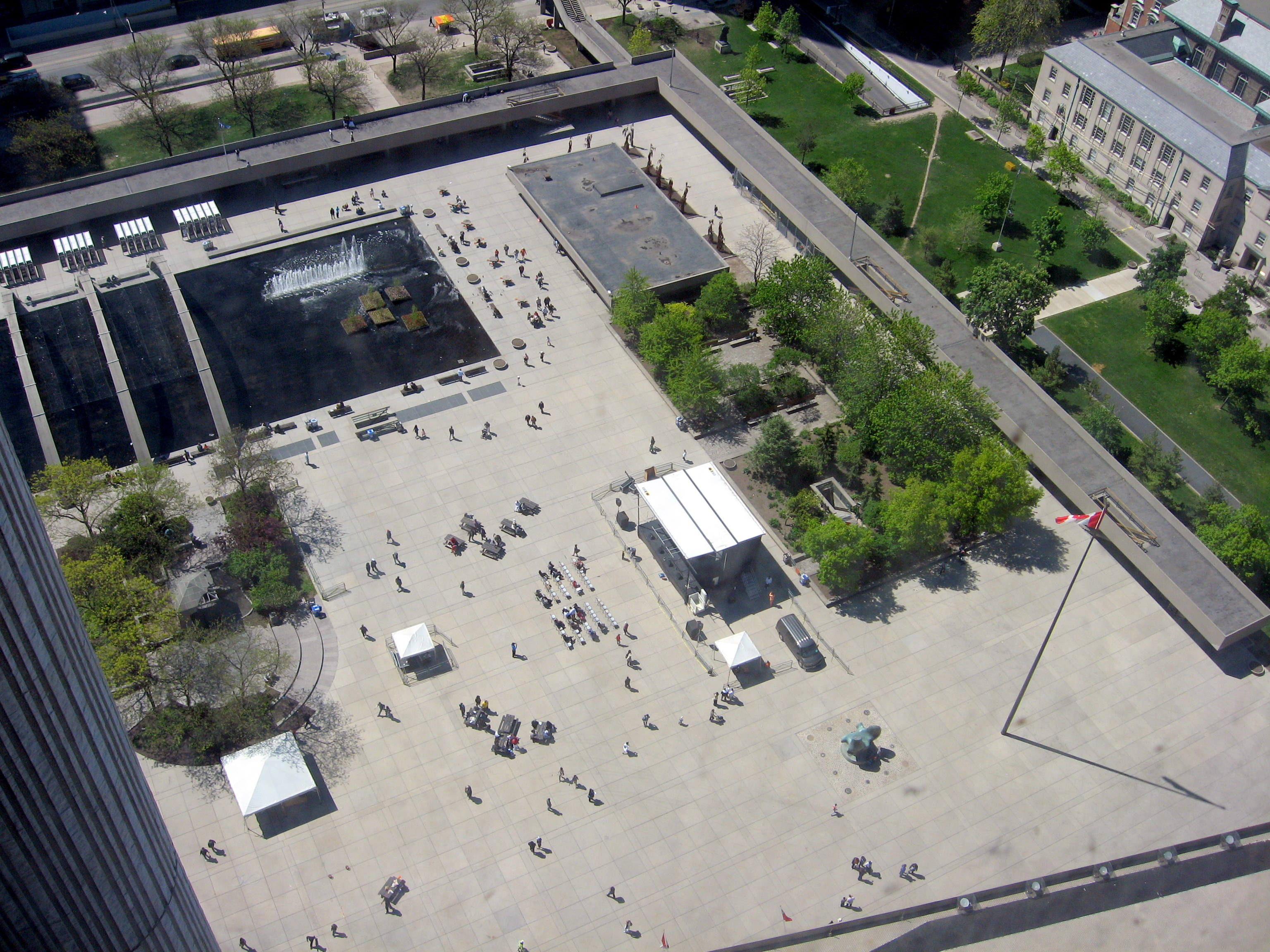 Nathan Phillips Square, seen from the City Hall observation deck in Toronto, Canada.